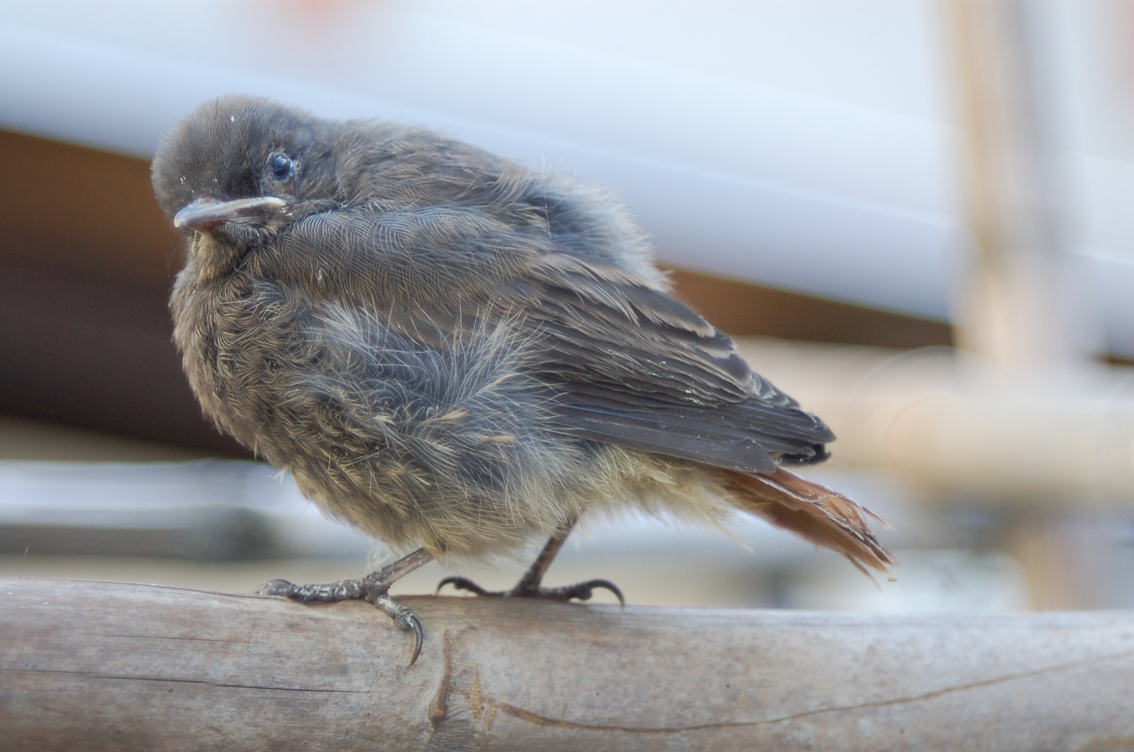 Immature Black Redstart - Phoenicurus ochruros - (European)